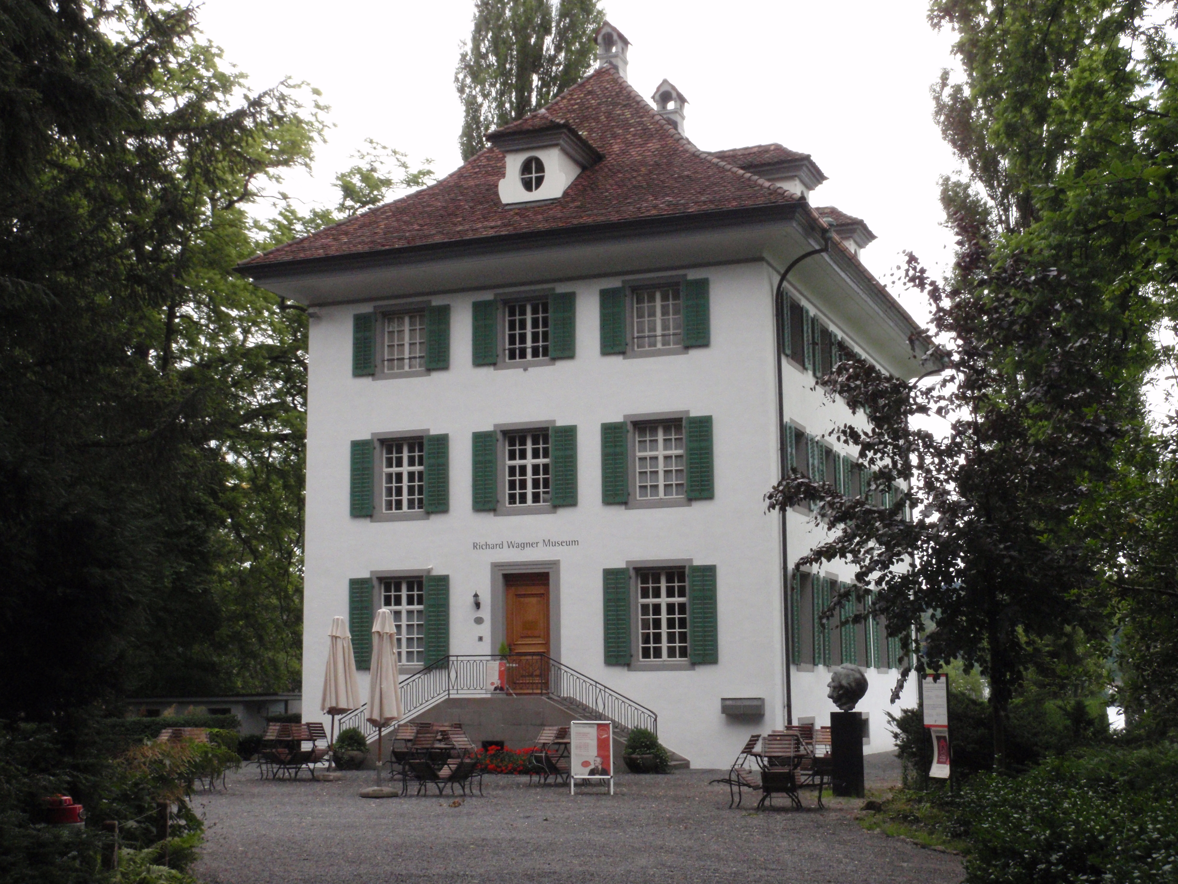 Luzern Landsitz Tribschen as seen from SW; housing the Richard Wagner Museum; at the right hand side we see a bust of Richard Wagner